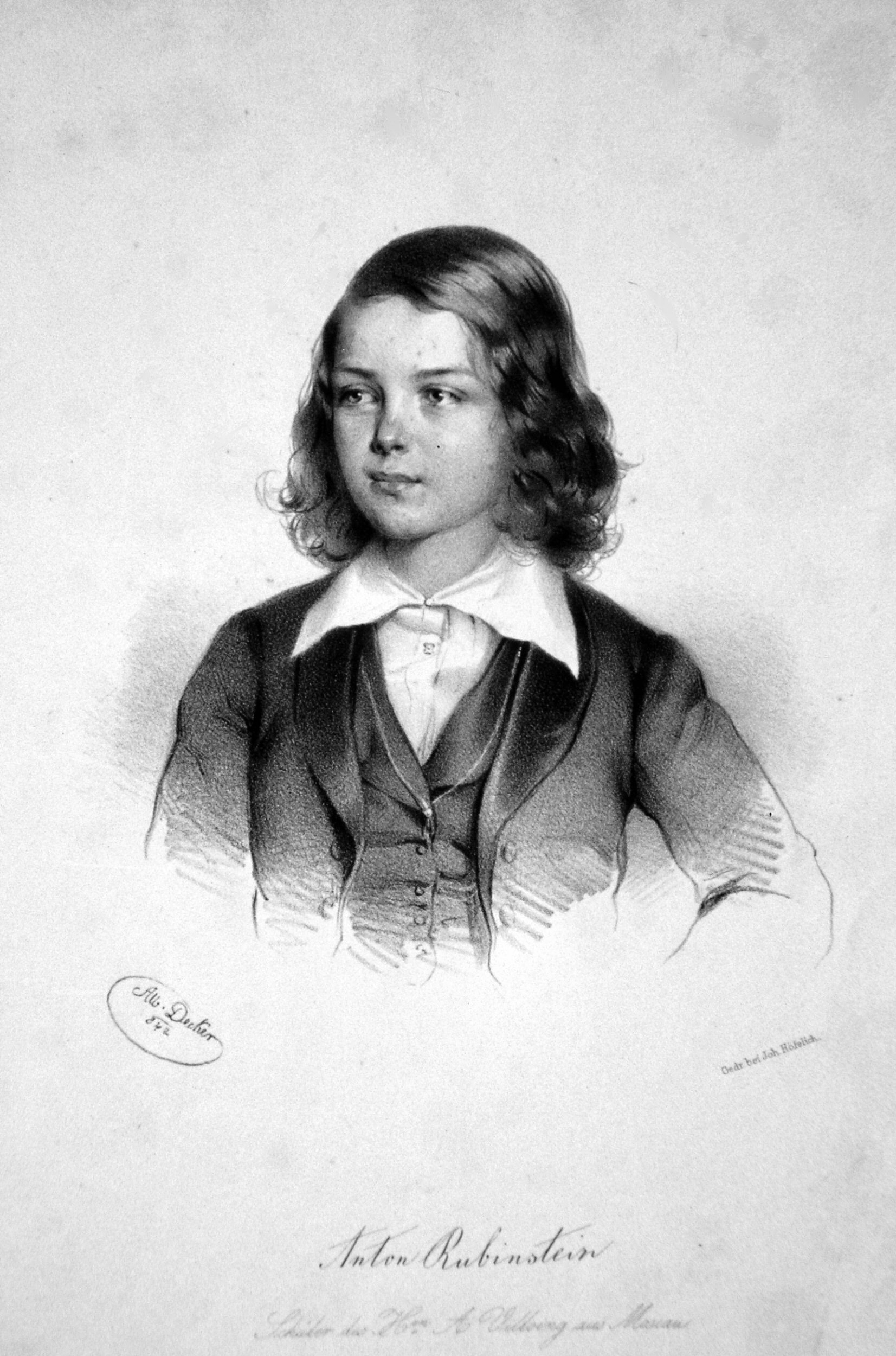 Anton Rubinstein (1829-1894), Lithograph by Albert Decker, 1842